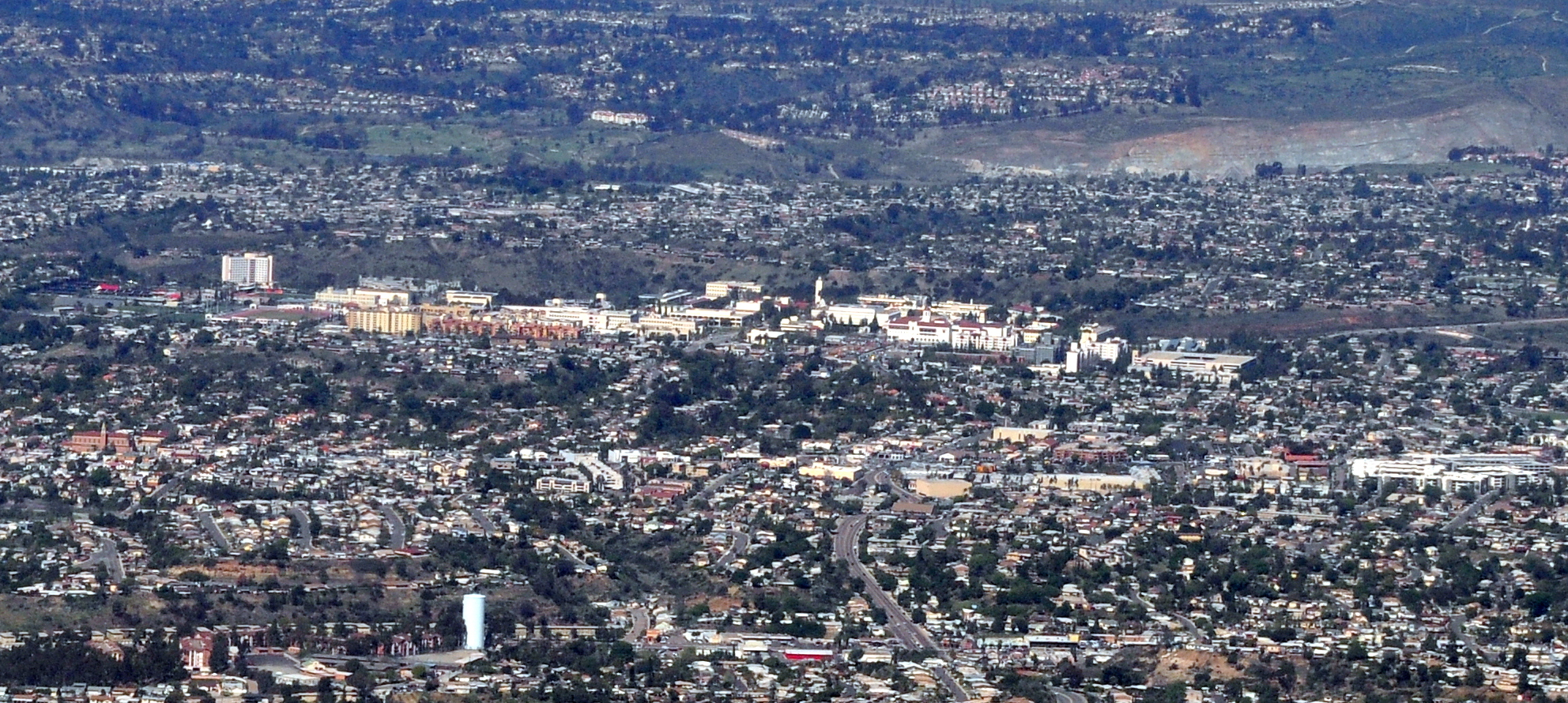 Aerial view of San Diego State University, San Diego, California.